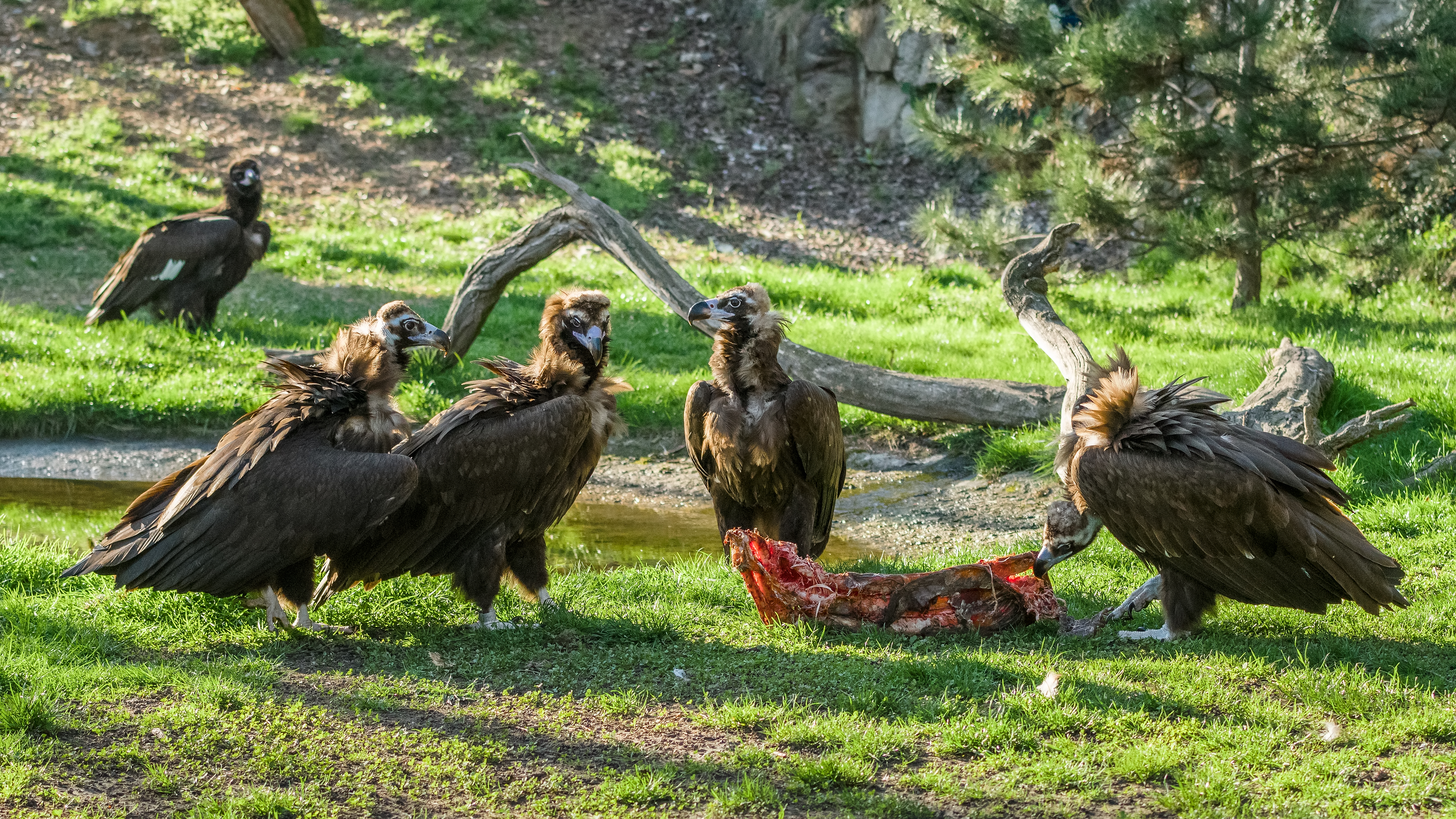 cinereous vulture, Prague Zoo, big aviary